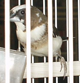 Dark brown Society Finch (Lonchura striata var. domestica Syn. Lonchura domestica) in cage